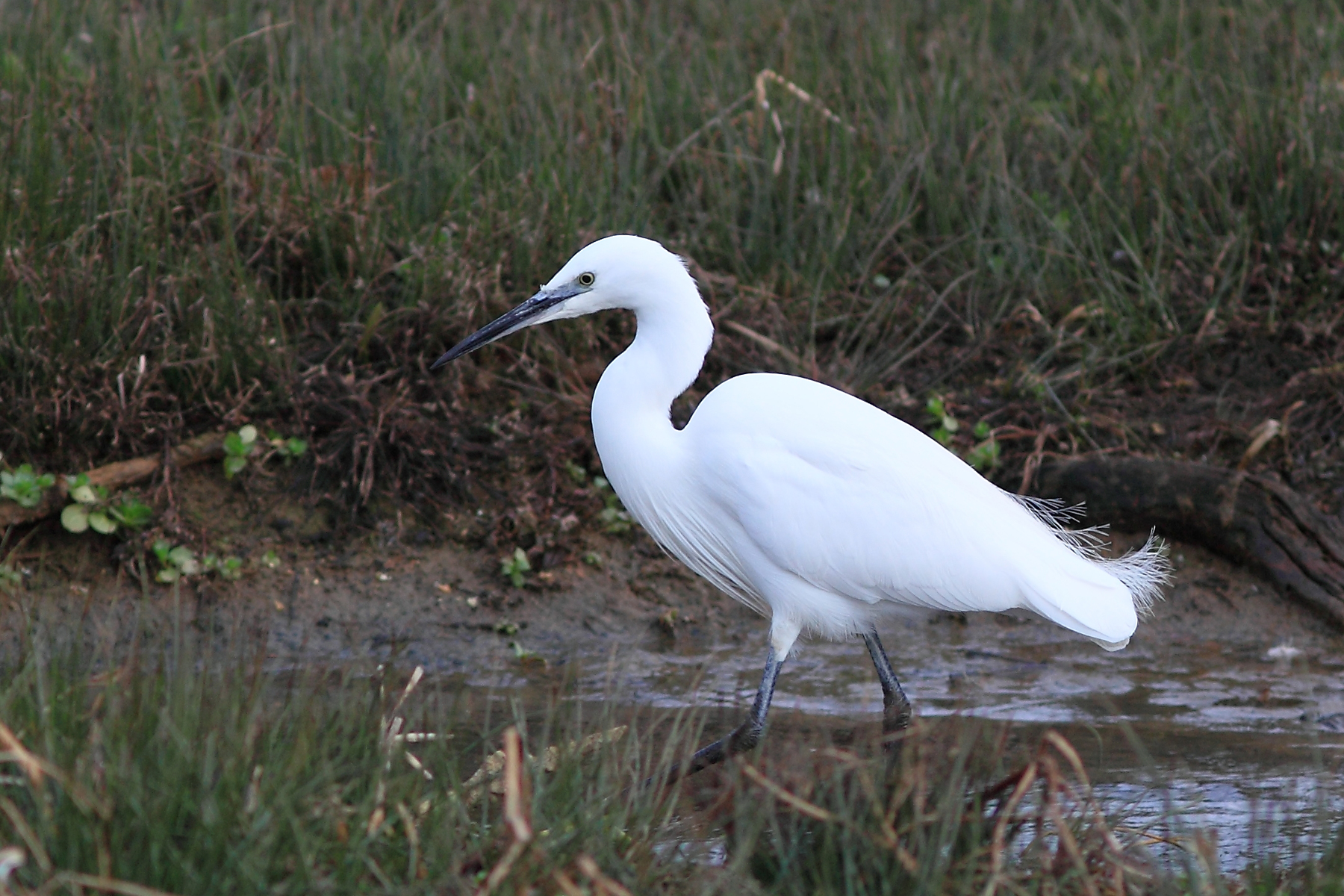 A Little Egret at Rutland Water, Rutland, England.